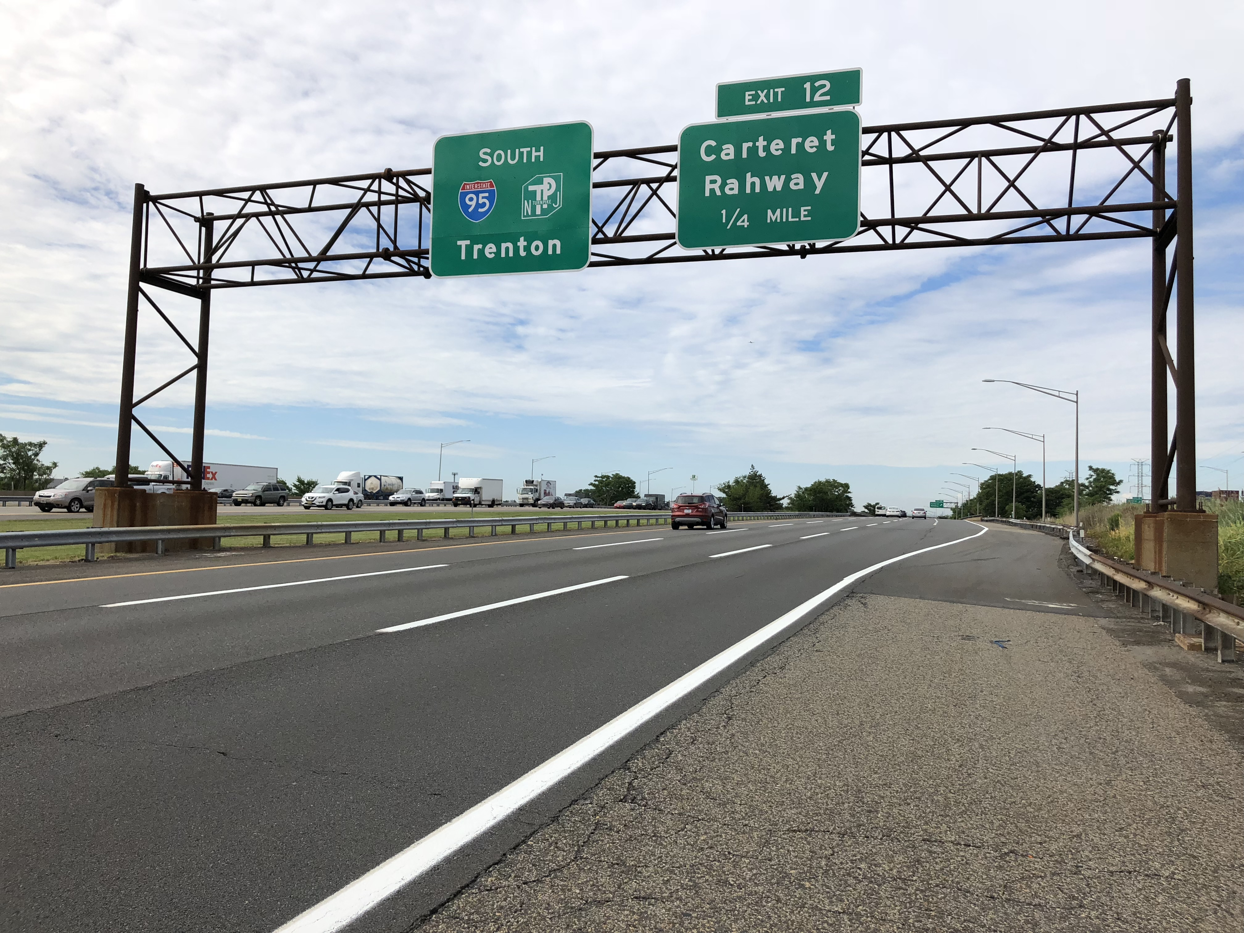 View south along Interstate 95 (New Jersey Turnpike) just north of Exit 12 (Carteret, Rahway) in Linden, Union County, New Jersey